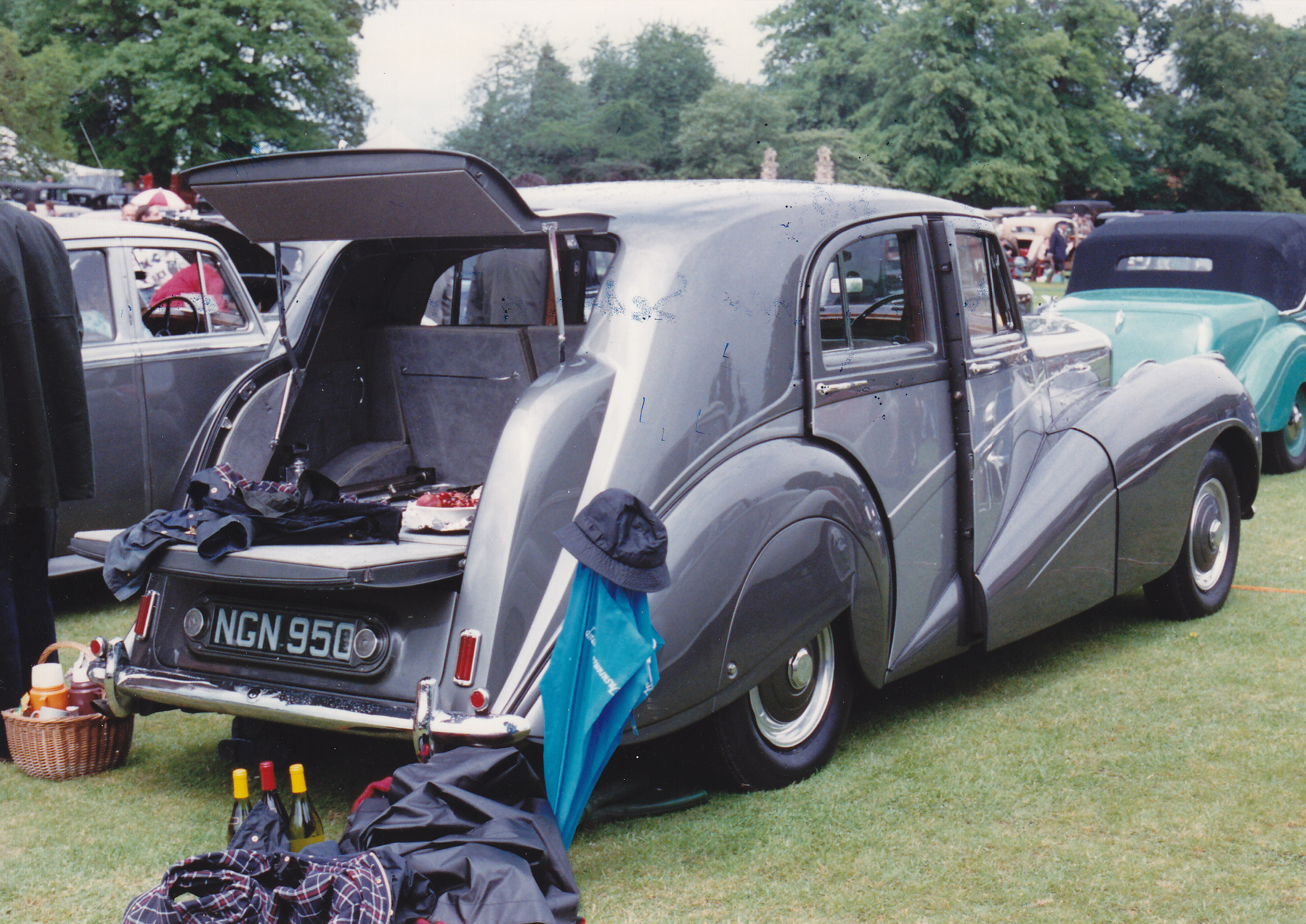 Harold Radford Countryman, #B111NY Bentley Mark VI 4½-litre 1952